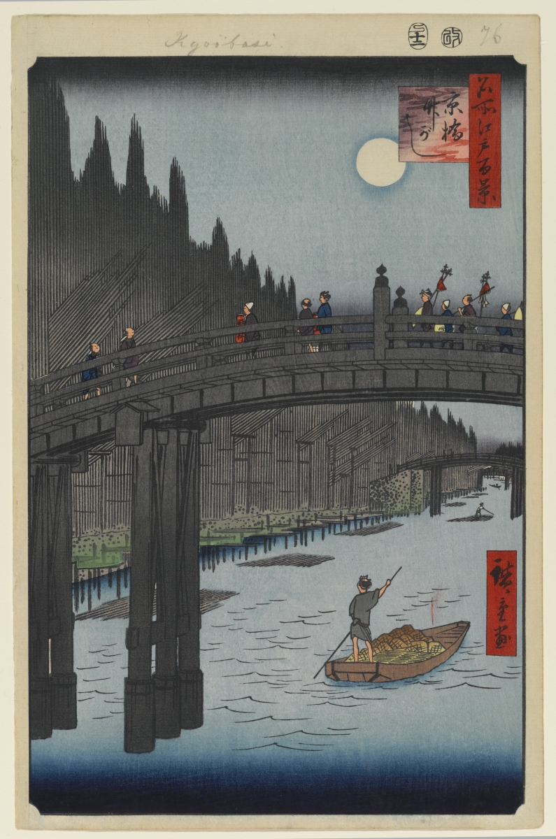 Part of the series One Hundred Famous Views of Edo, no. 076, part 3: Autumn.